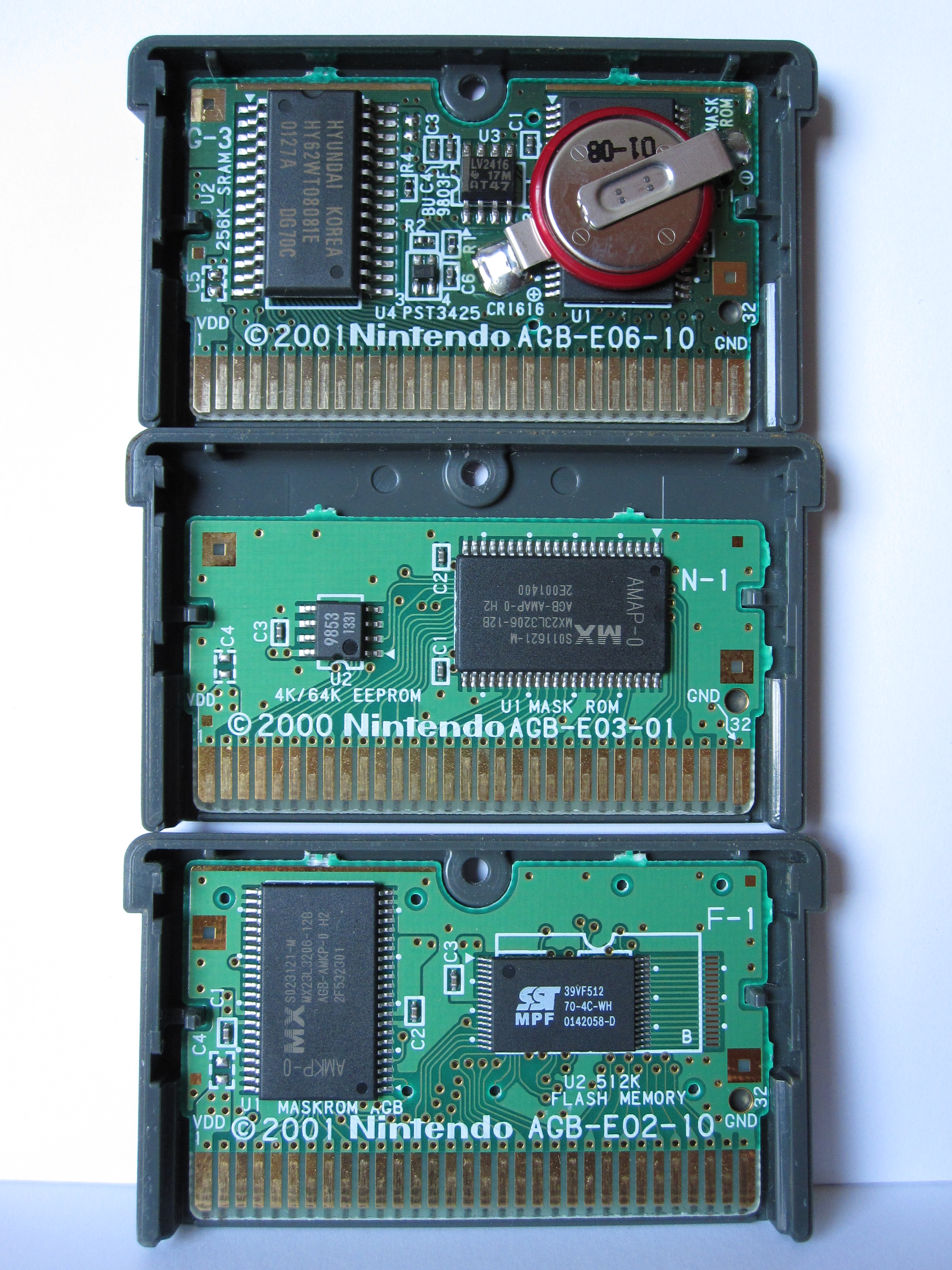 These are three cartridge type of Game Boy Advance games wich are licensed by Nintendo. From top to bottom: SRAM Memory, EEPROM Memory, Flash Memory.